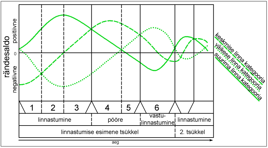 Rahvastiku arvu muutus linnaregioonis erineva mudeli järgi (Geyer & Kontuly, 1993)